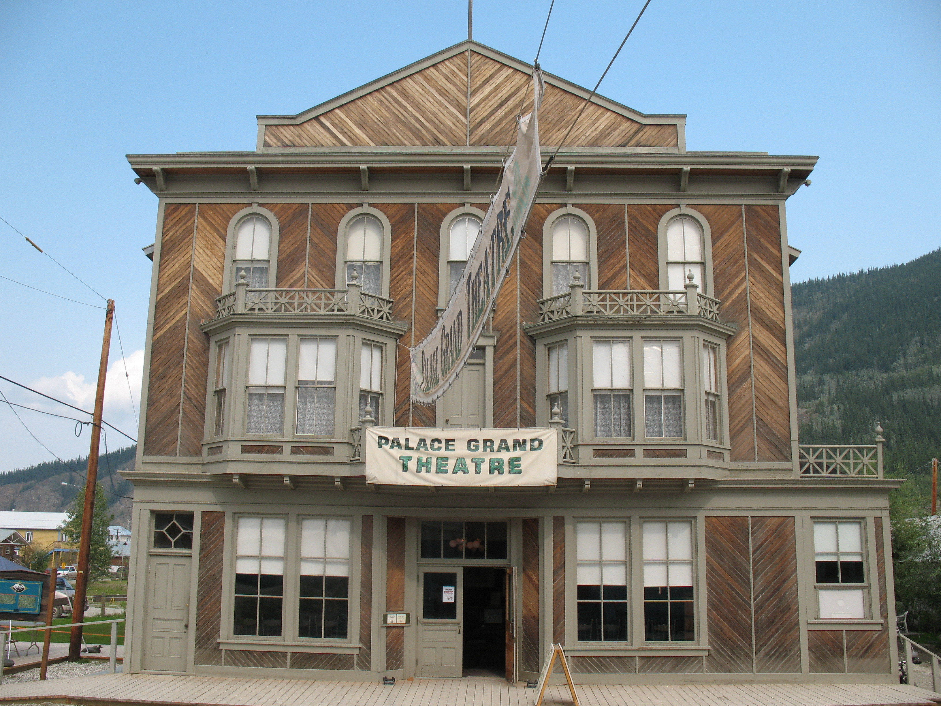 Palace_Grand_Theatre_in_Dawson, Yukon